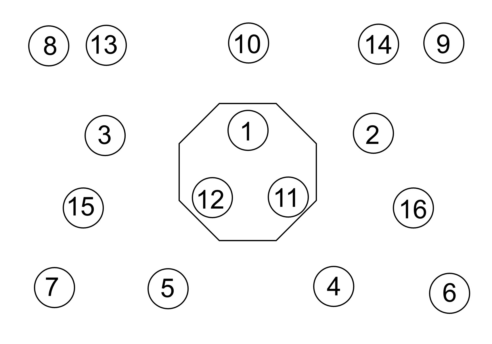 Arragement of saints at Hokkedo, Nara